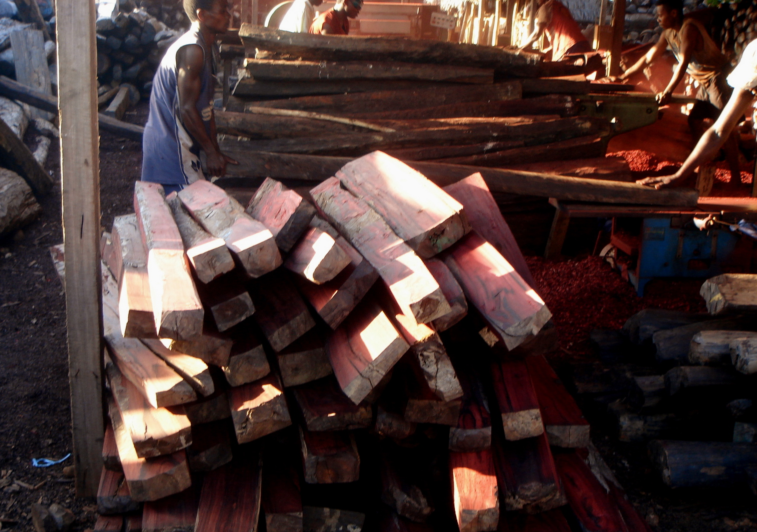 Processing of illegal rosewood near Antalaha, Madagascar